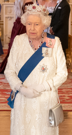 President Donald J. Trump and First Lady Melania Trump pose for a photo with Britain’s Queen Elizabeth II Monday, June 3, 2019, prior to attending a state banquet at Buckingham Palace in London. (Official White House Photo by Shealah Craighead)